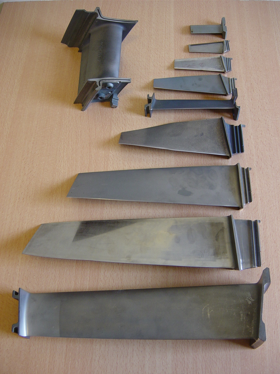 Olympus 593 engine blades and vanes, used in Concorde